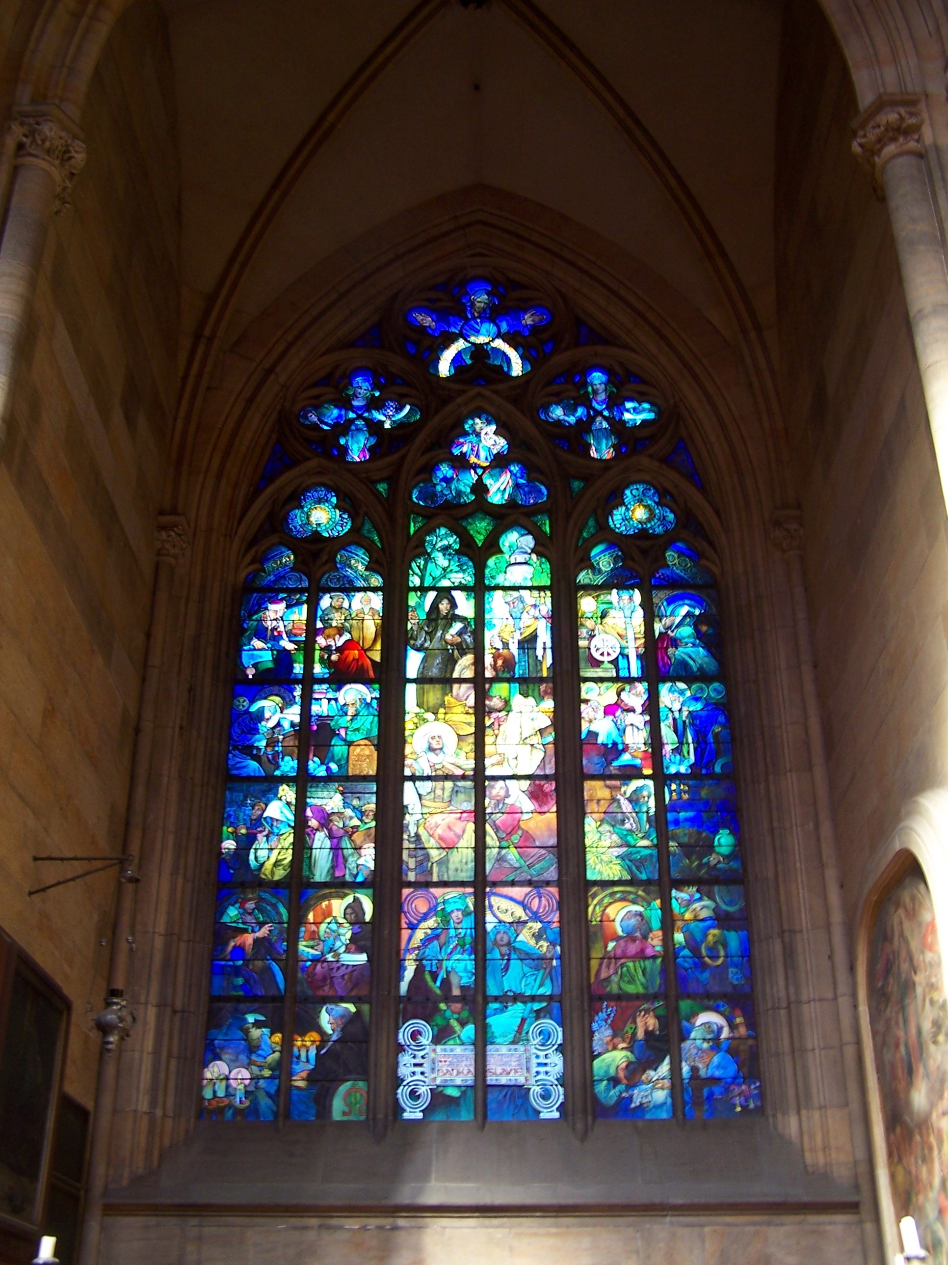 Stained glass window "Banka Slavie" by Alfons Mucha in St. Vitus' Cathedral in Prague.